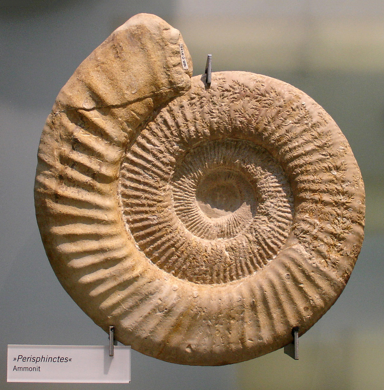 Perisphinctes - ammonite. The exhibit from the Museum of Natural History in Berlin (Museum für Naturkunde) Perisphinctes - amonit z Muzeum Historii Naturalnej w Berlinie